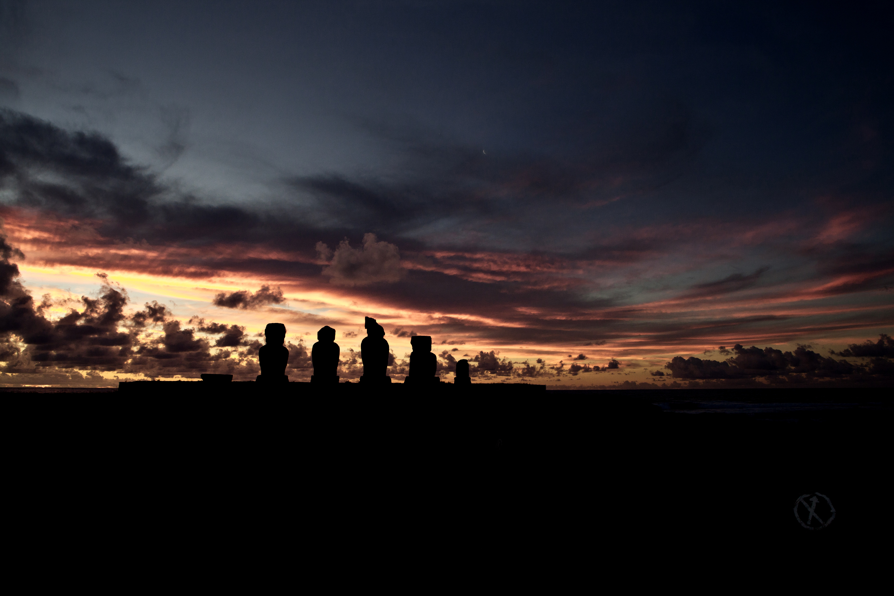 Easter Island at sunset